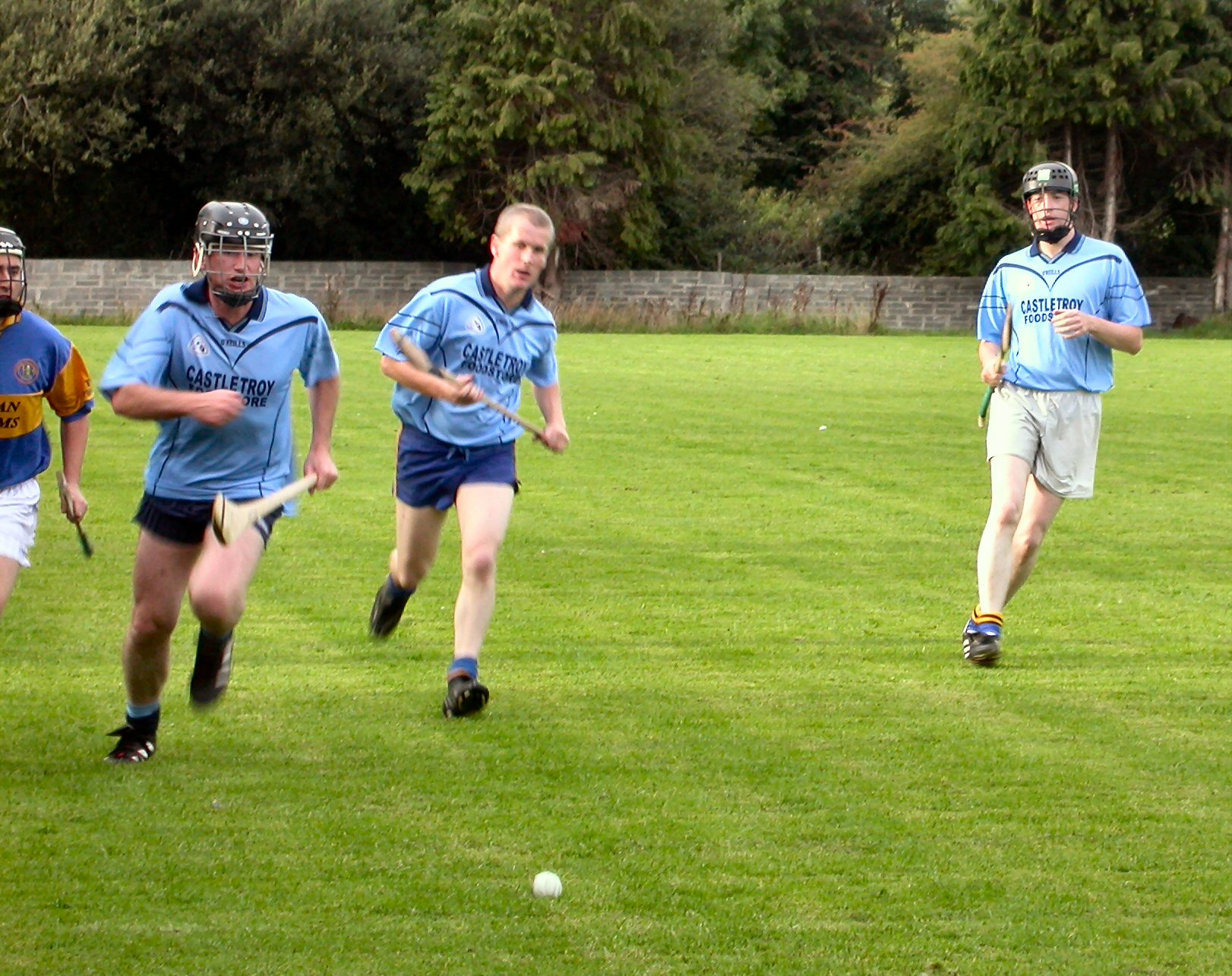 Limerick City Junior B Hurling Championship, Milford (light blue) against Patrickswell (yellow-blue).